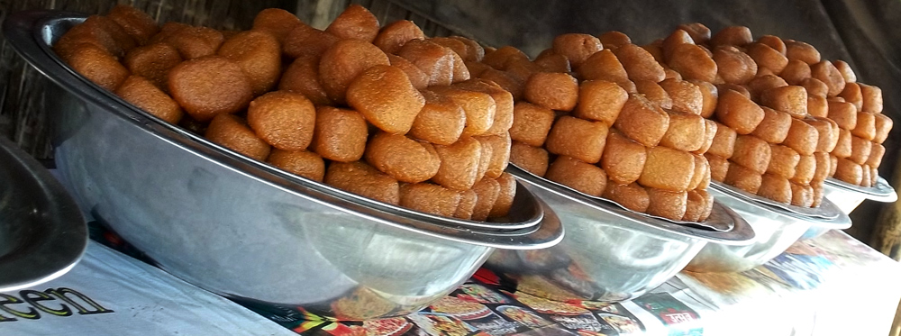 Chenagaja or Chhena gaja is an Odia sweet dessert made in the Indian state of Odisha. It is made of chhena (cheese curd) and sugar syrup.